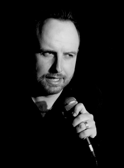 personal photo